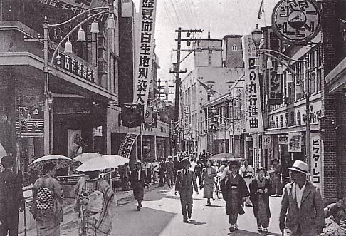 Honcho in Keijo(Seoul)